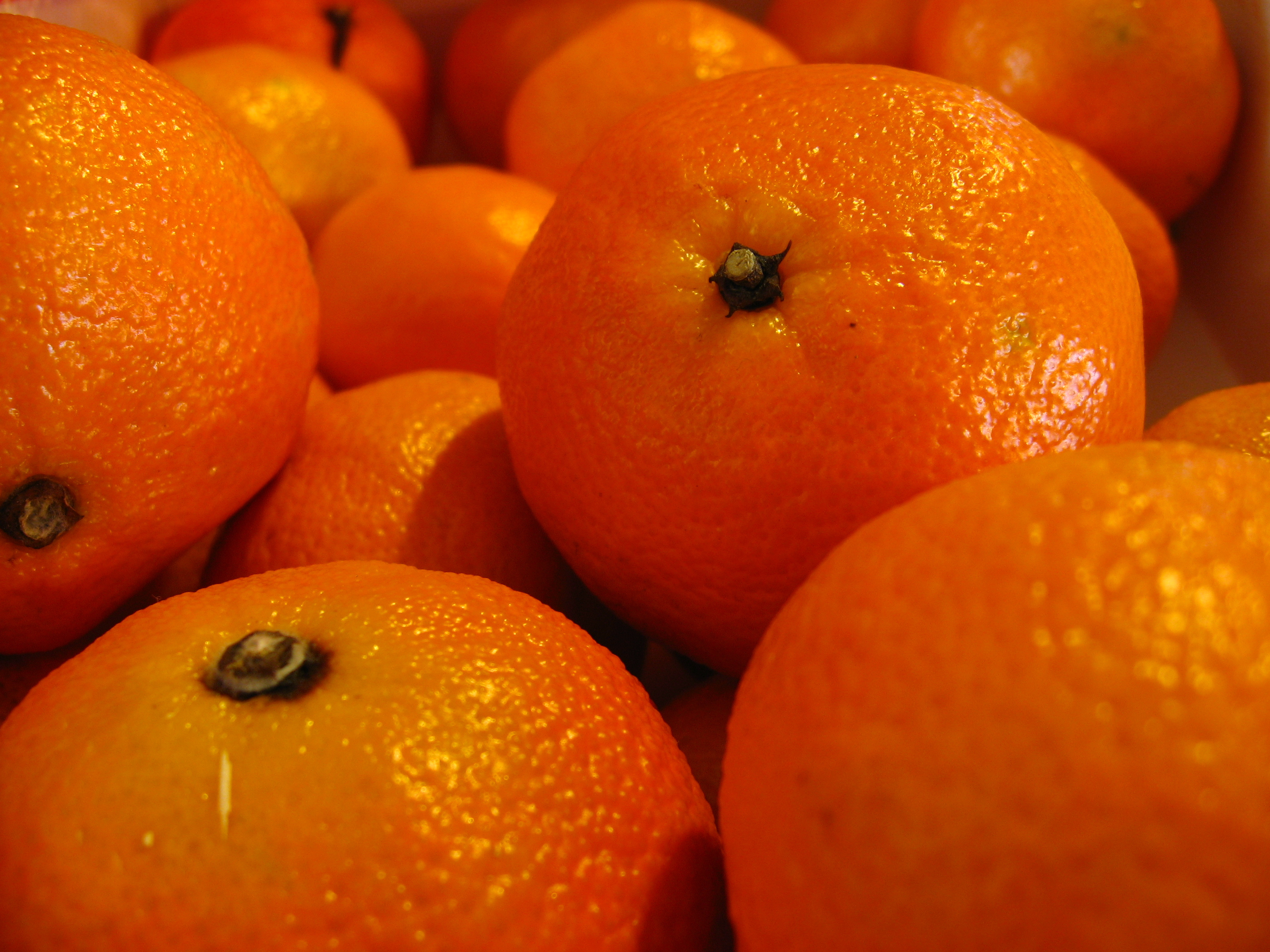 Macro shot of a box of clementines, Citrus reticulata 'Clementine' .